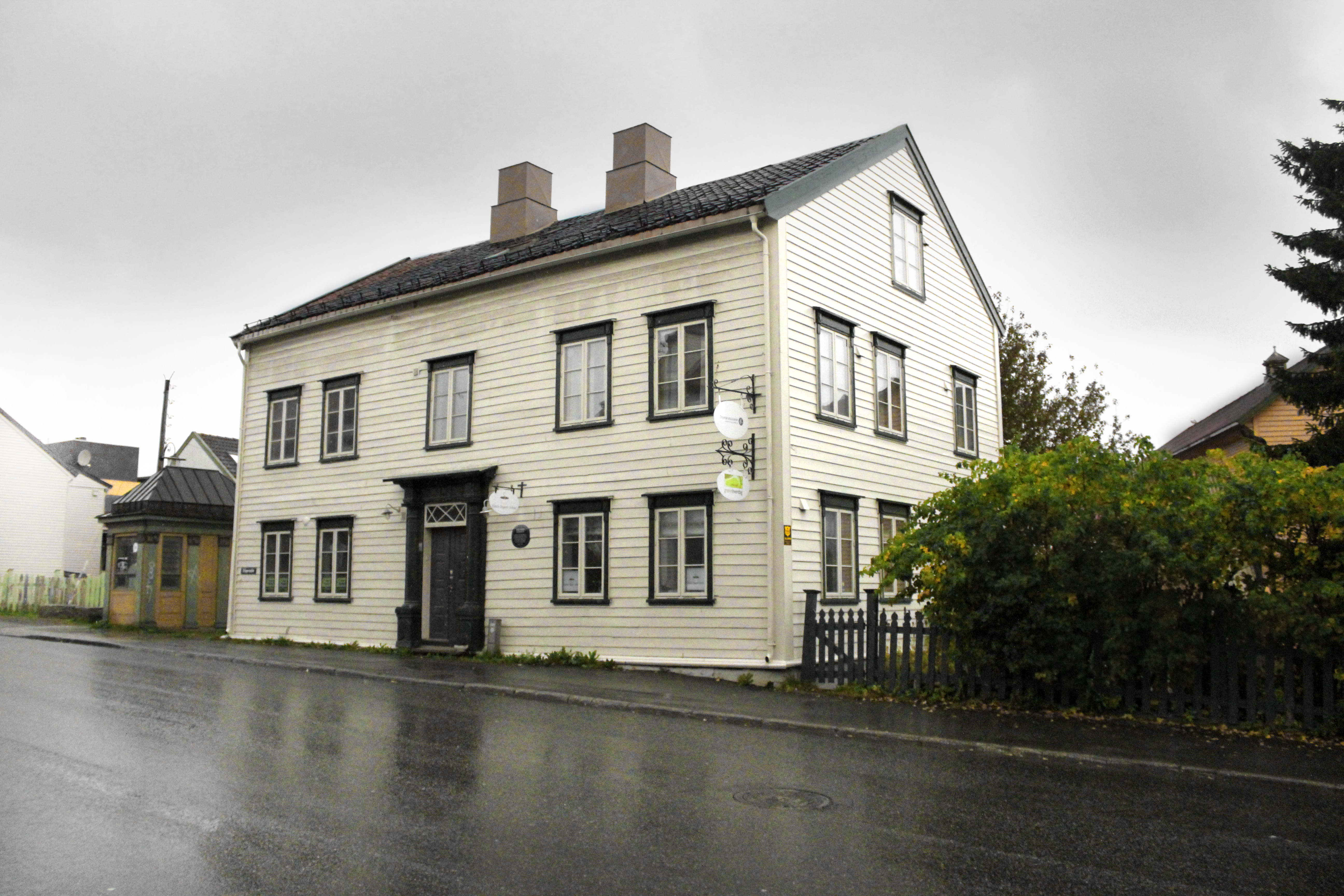 Møllergården, Tromsø Norway